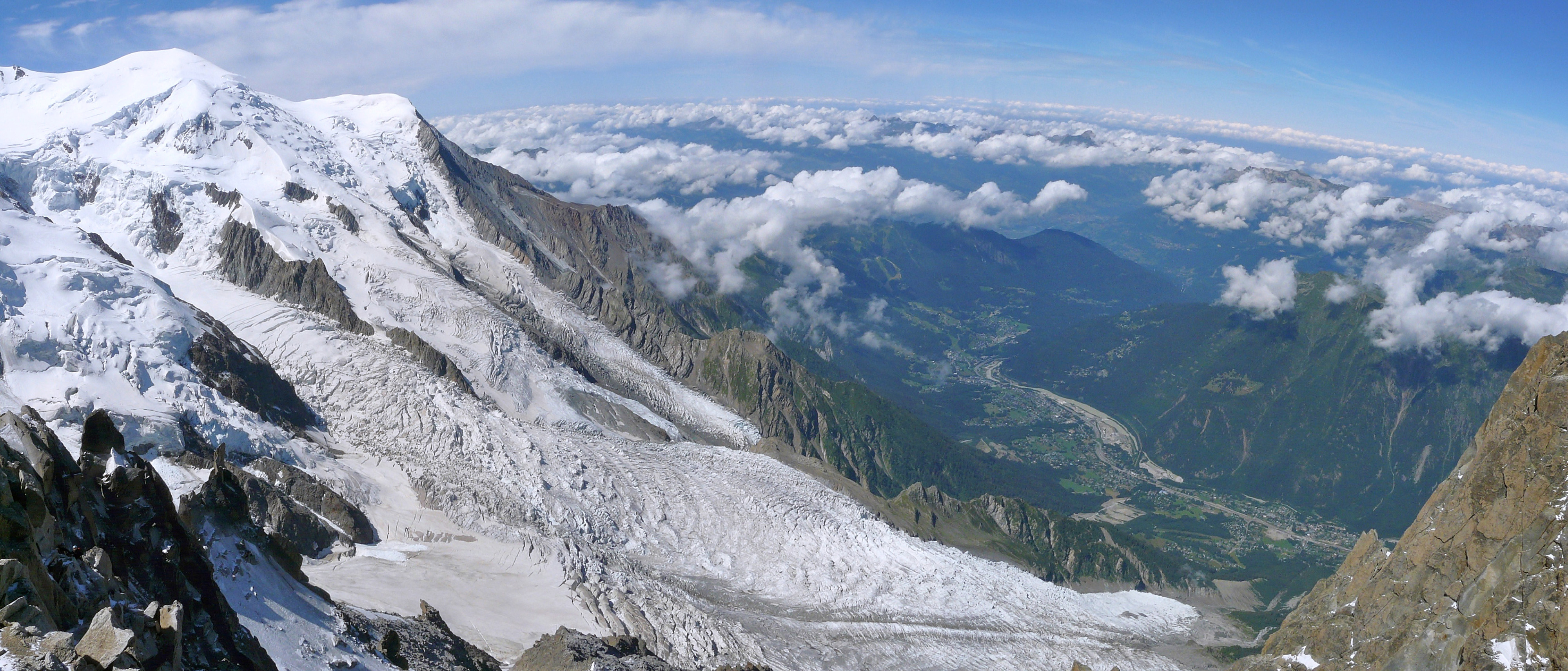 A panorama view to couple of glaciers at Mont Blanc (Glacier des Bossons (in front) and Glacier de Taconnaz (behind)) from Aiguille du Midi in 2009 July.